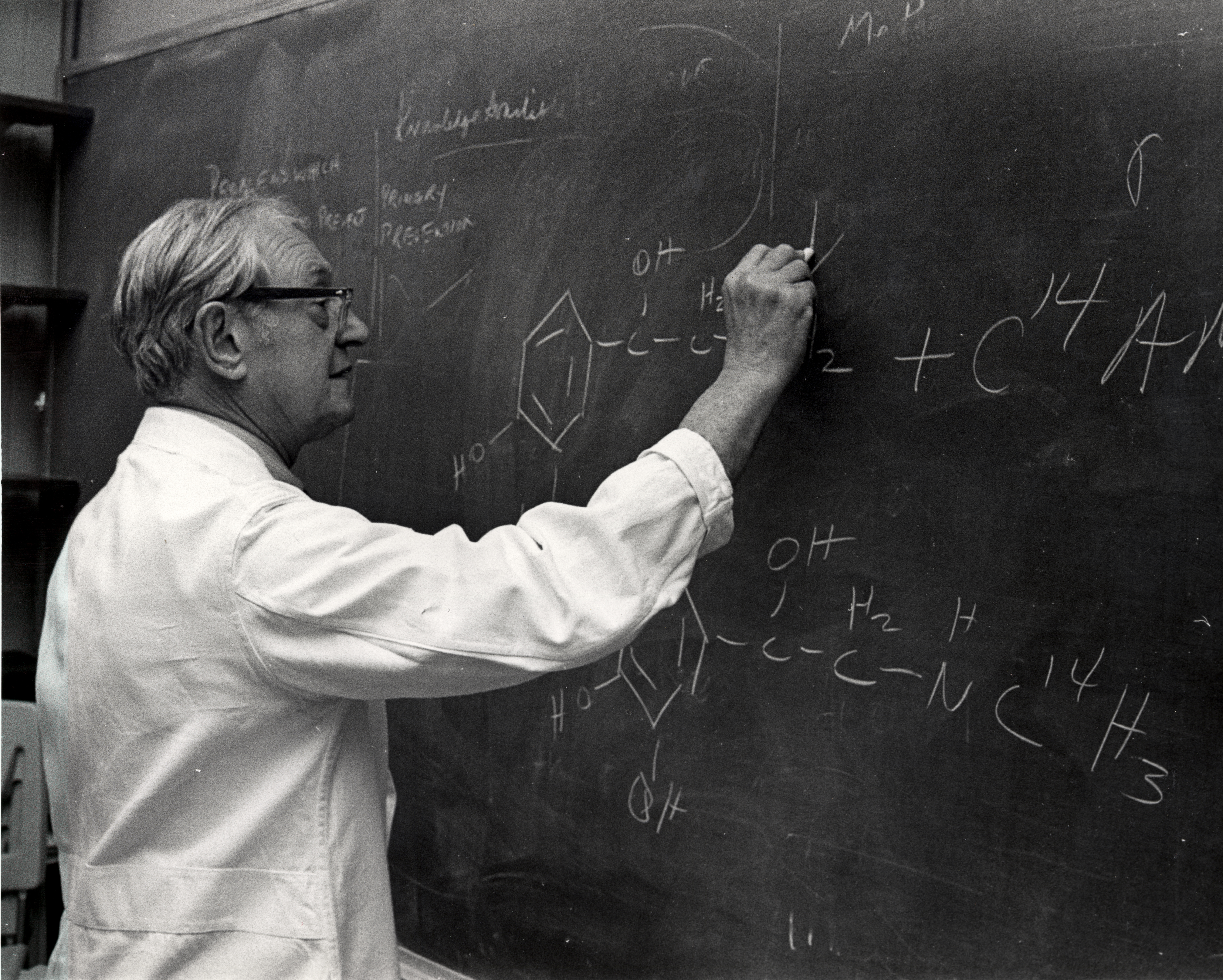 Dr. Julius Axelrod checking a student's work on the chemistry of catecholamine reactions in nerve cells.